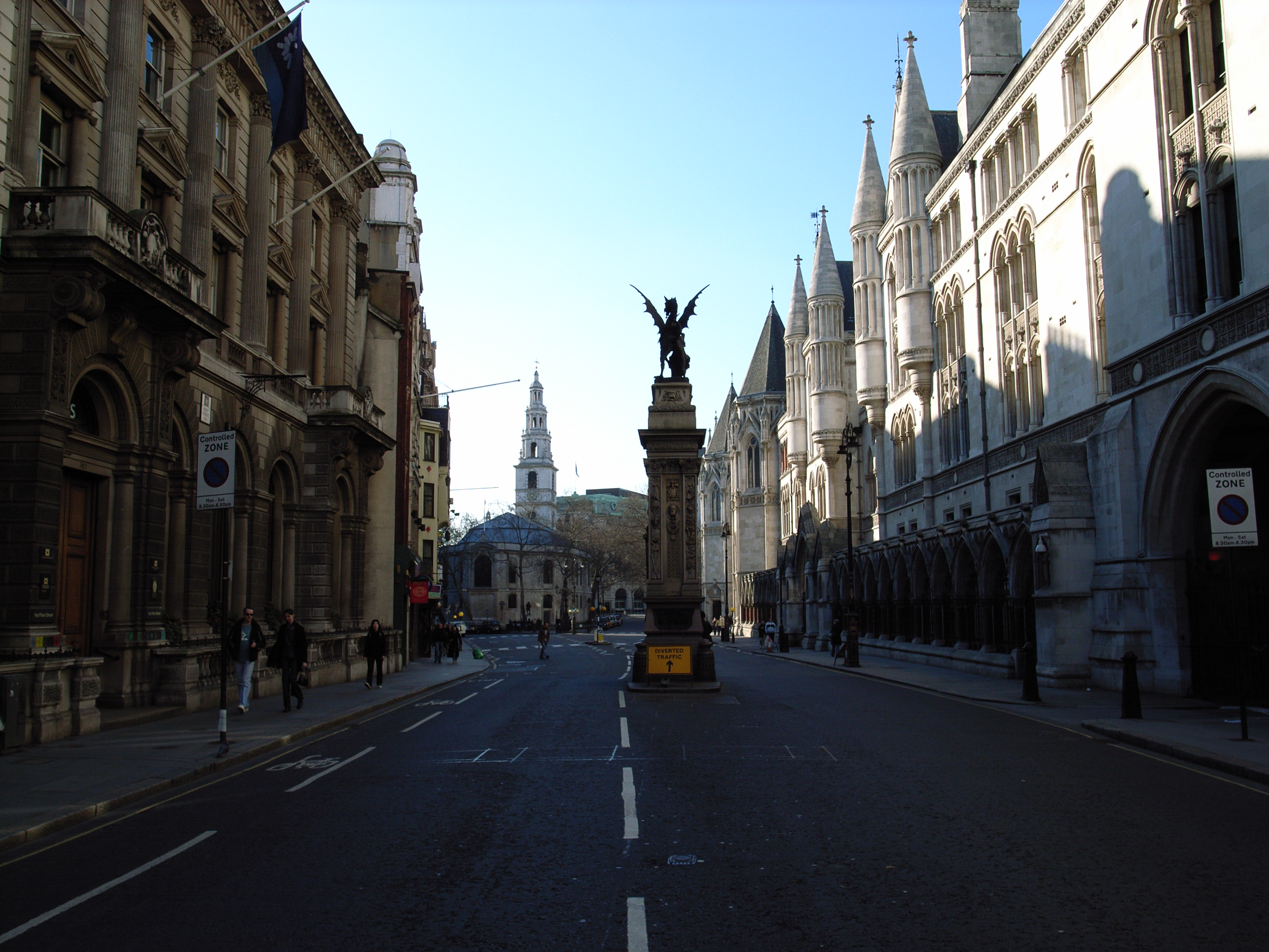 Temple Bar -Dragon of Fleet Street